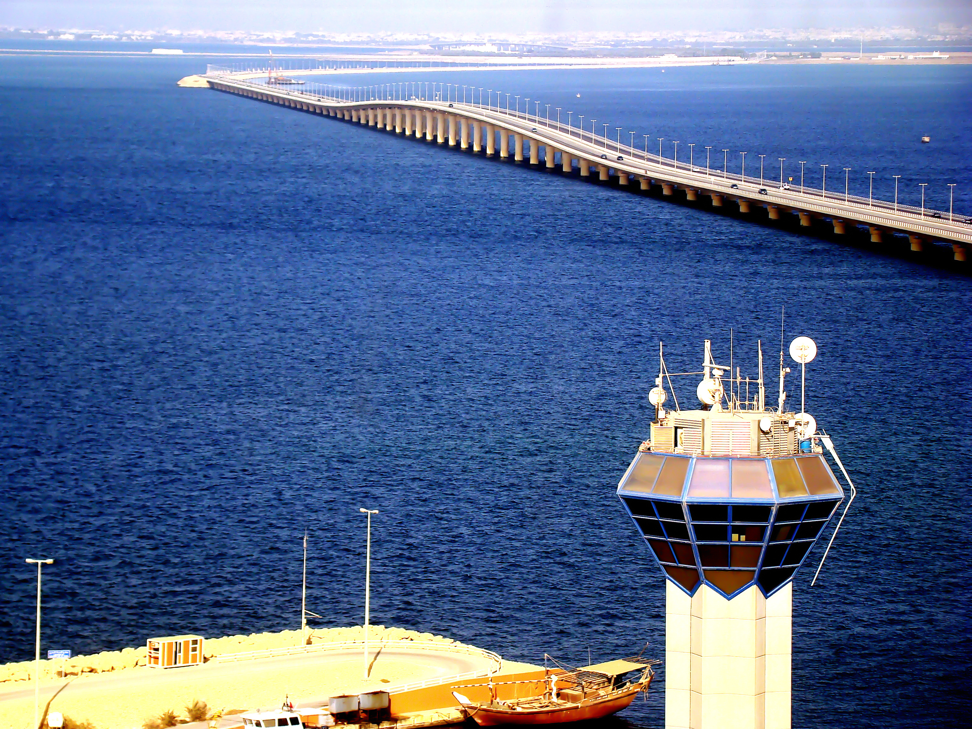 Saudi Bridge, Taken by AbulPhoto - Mohamed Ghuloom